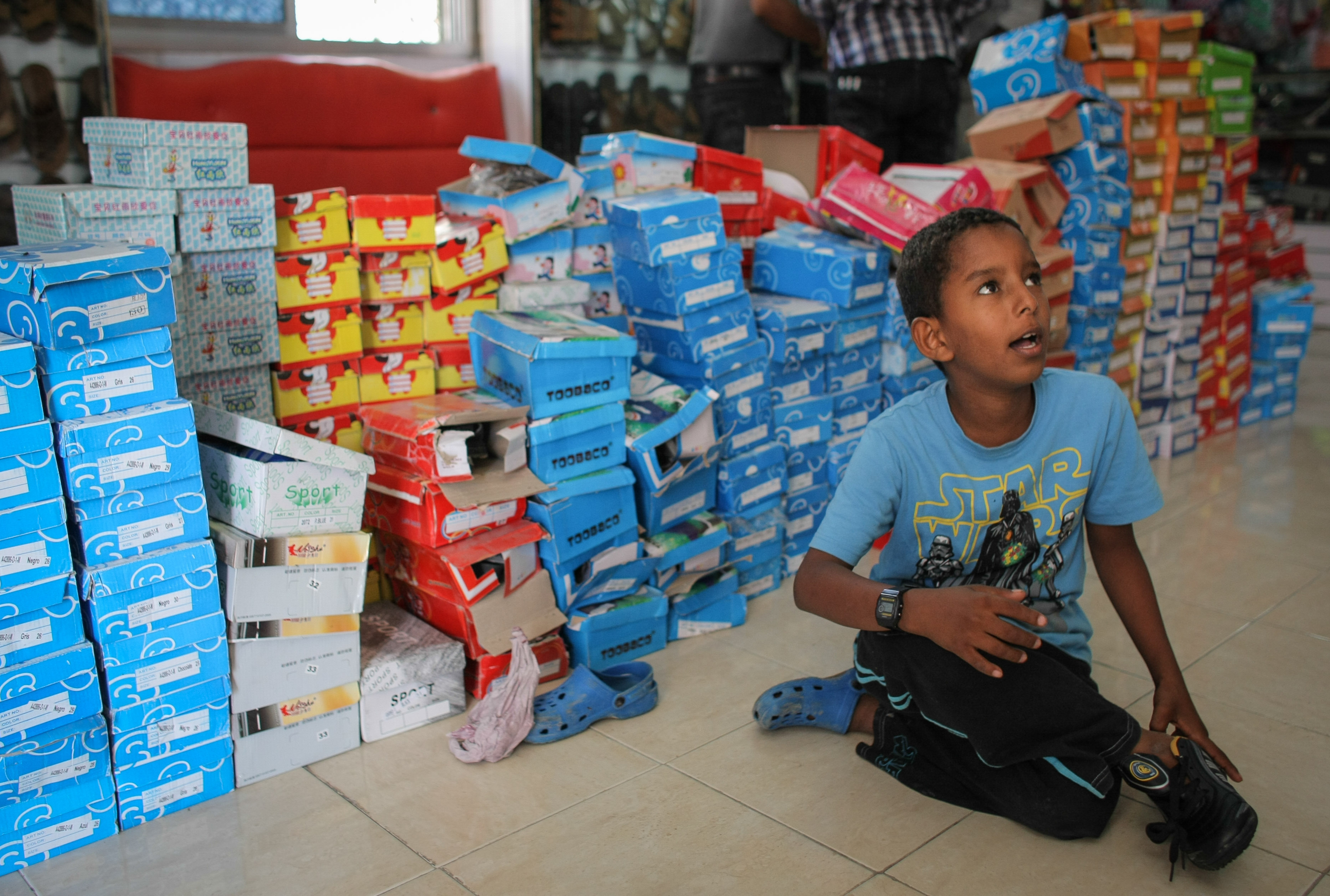 A young Somali boy tries on a new pair of shoes at a clothing and footwaer shop in Hamar Weyne market in the Somali capital Mogadishu, 05 August, 2013. 06 August marks 2 years since the Al Qaeda-affiliated extremist group Al Shabaab withdrew from Mogadishu following sustained operations by forces of the Somali National Army (SNA) backed by troops of the African Union Mission in Somalia (AMISOM) to retake the city. Since the group's departure the country's captial has re-established itself and a sense of normality has returned. Buildings and infrastructure devastated and destroyed by two decades of conflict have been repaired; thousands of Diaspora Somalis have returned home to invest and help rebuild their nation; foreign embassies and diplomatic missions have reopened and for the first time in many years, Somalia has an internationally recognised government.. AU-UN IST PHOTO / STUART PRICE.